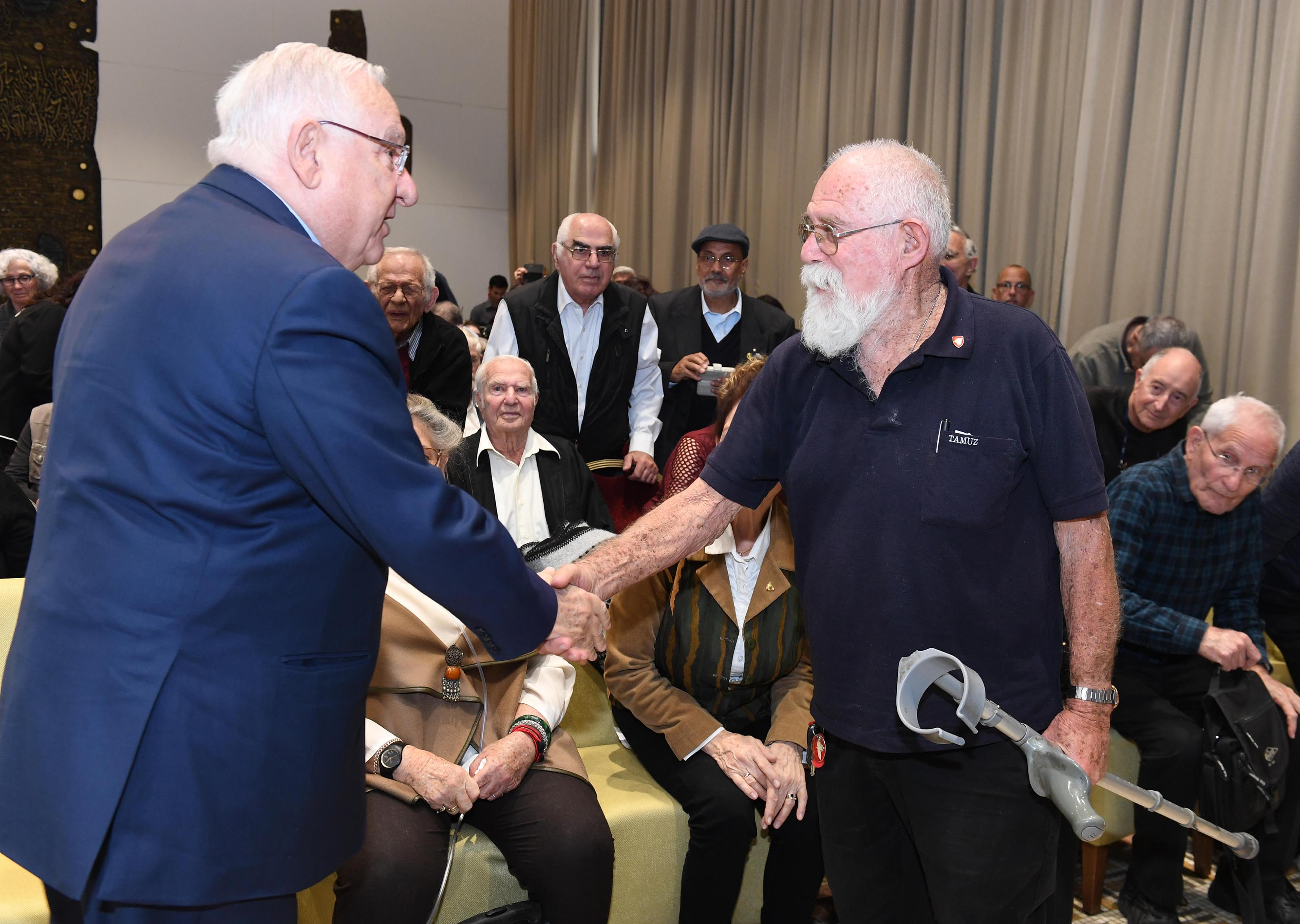 President of Israel, Reuven Rivlin, at an event held in honor of the publication of the book "67 Jerusalem, War" by Gideon Avital-Eppstein. Monday, February 5, 2018. Photo Credit: Mark Neyman / GPO.